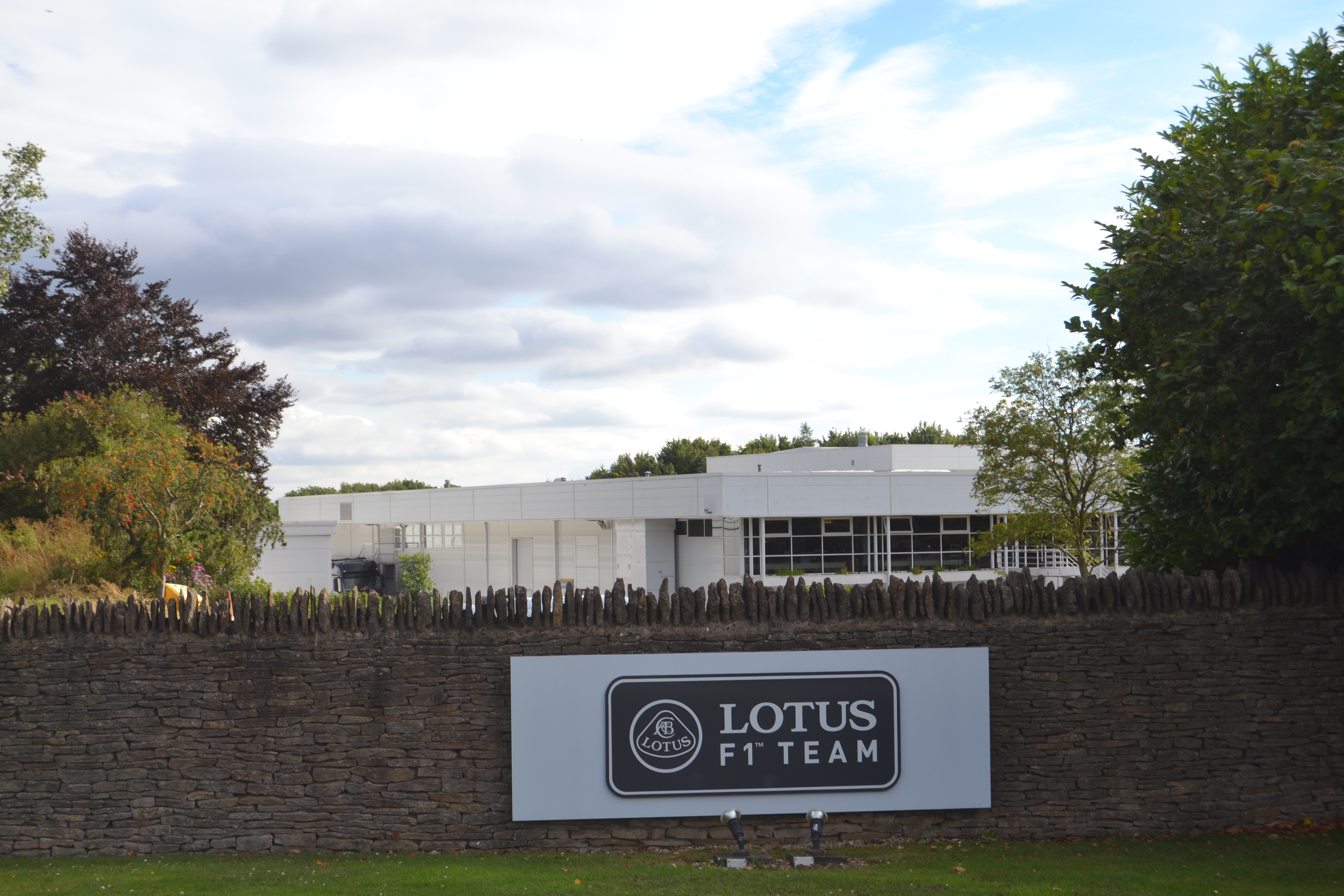 Lotus F1 Team: Factory in Enstone, Oxfordshire, UK